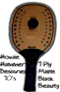 Ply Maple One wall paddleball paddle designed by Howie Hammer and popular in the 1970's.